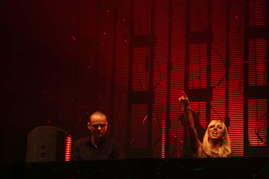 Korsakoff vs. Outblast live on stage at the Masters of Hardcore Area at Syndicate 2010.